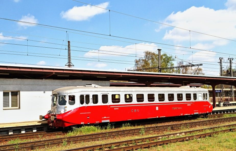 Kolín (train station), ČSD Class M 260.0.